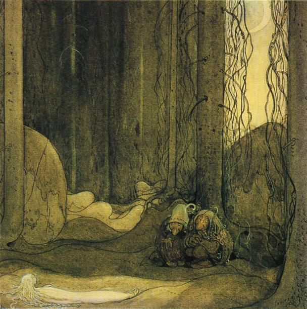 Trolls with the changeling they have raised, from "Bland Tomtar och Troll", Illustration to Helena Nyblom's The changelings in anthology Among pixes and trolls